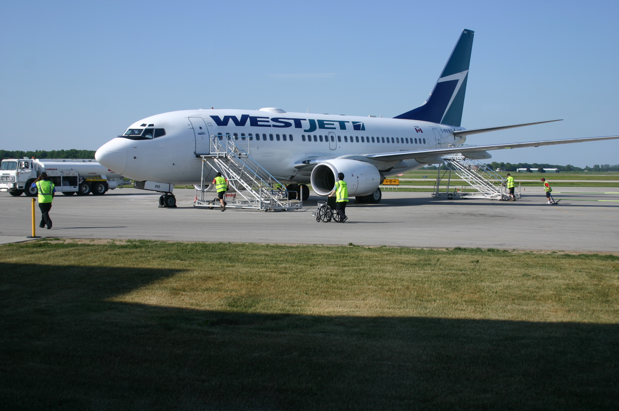 A Westjet at Region of Waterloo International Airport.